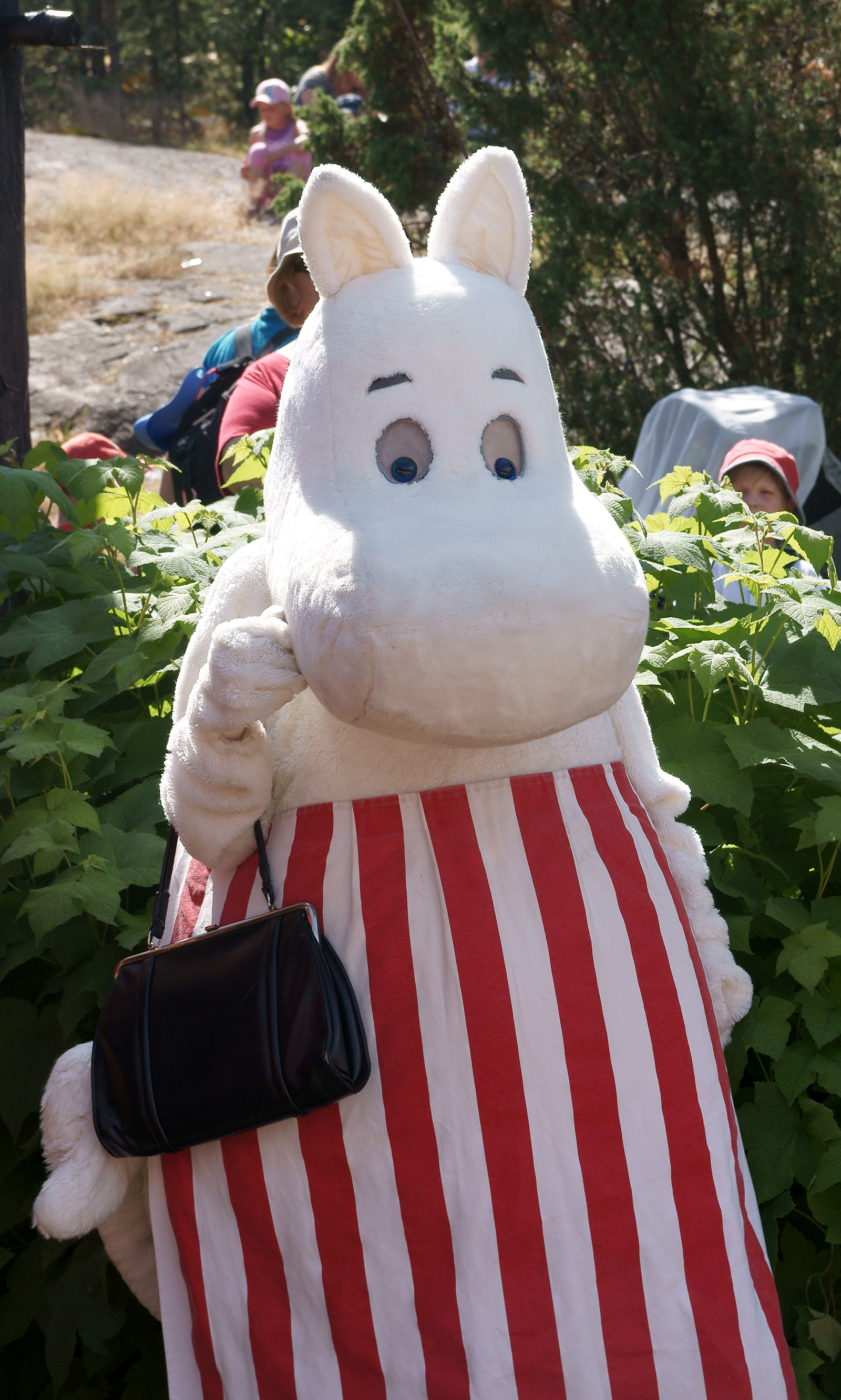 Moominmamma in Moomin World theme park, Naantali, Finland.